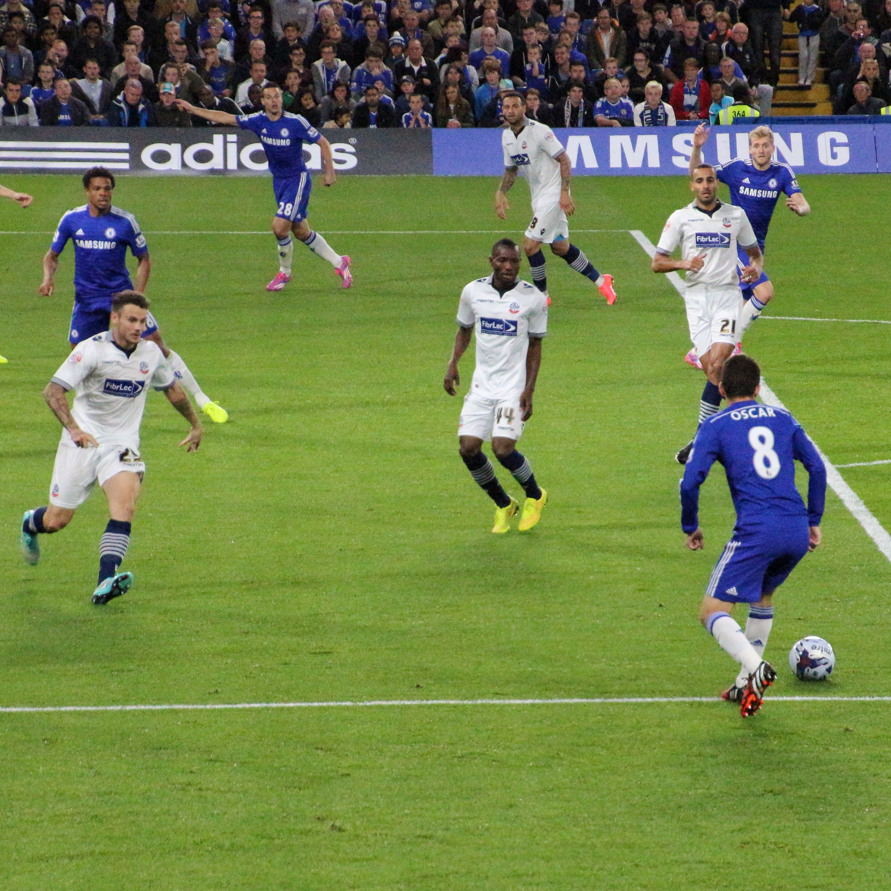 Chelsea 2 Bolton Wanderers 1 Chelsea progress to the next round of the Capital One cup